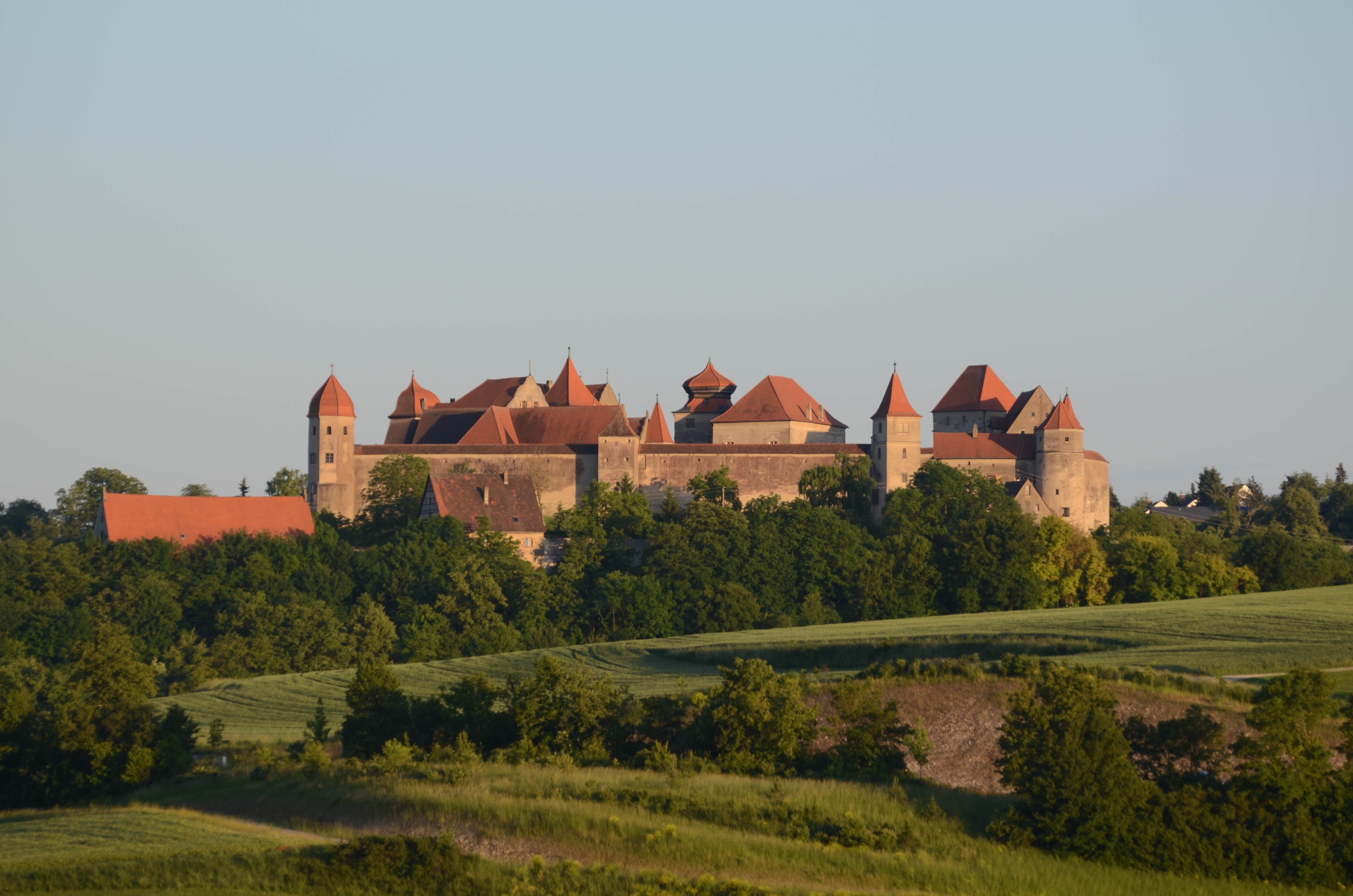 Harburg Castle in Swabia This is a photograph of an architectural monument.